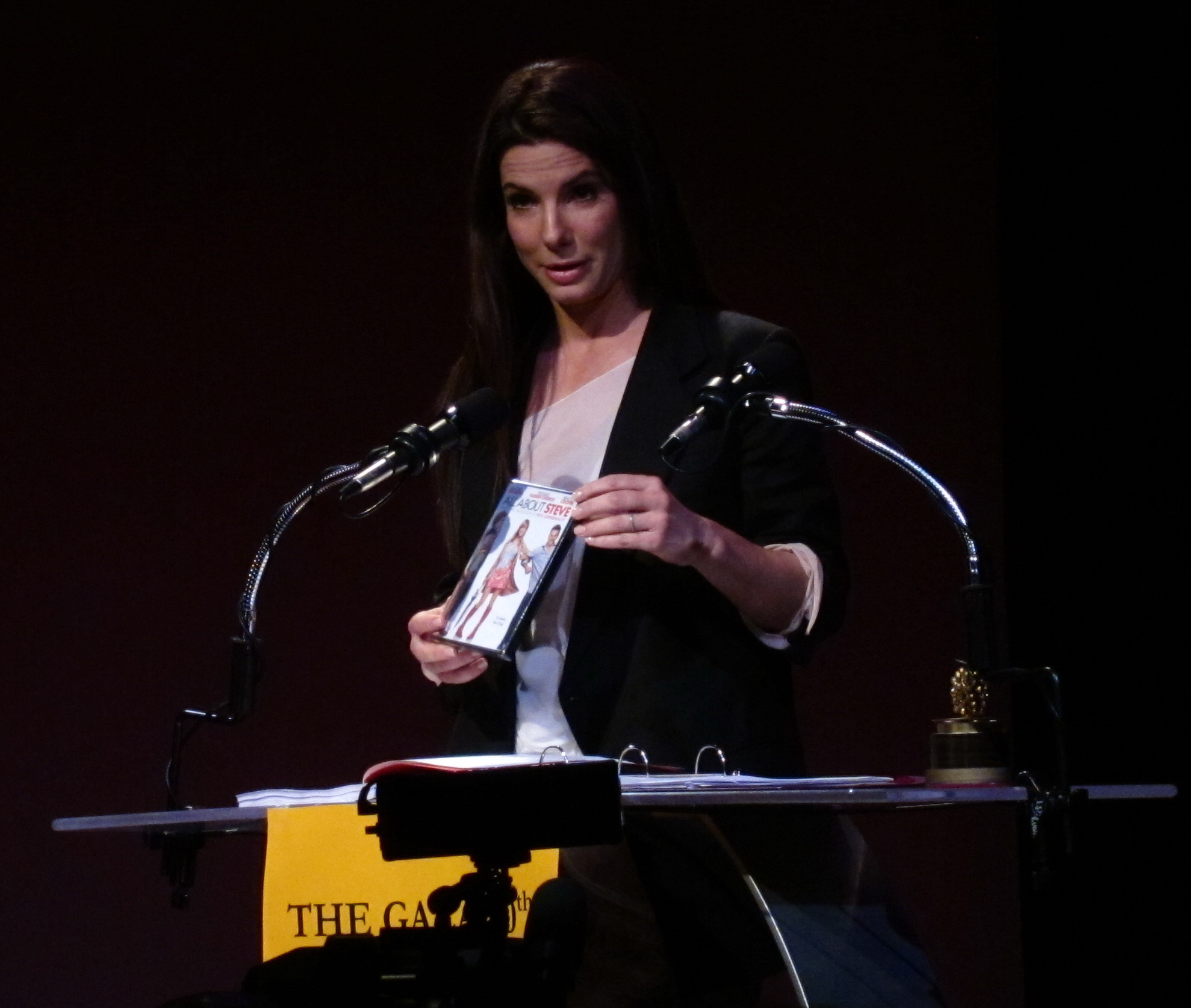 Sandra Bullock accepting her award for "Worst Actress of 2009" for her performance in "All About Steve."